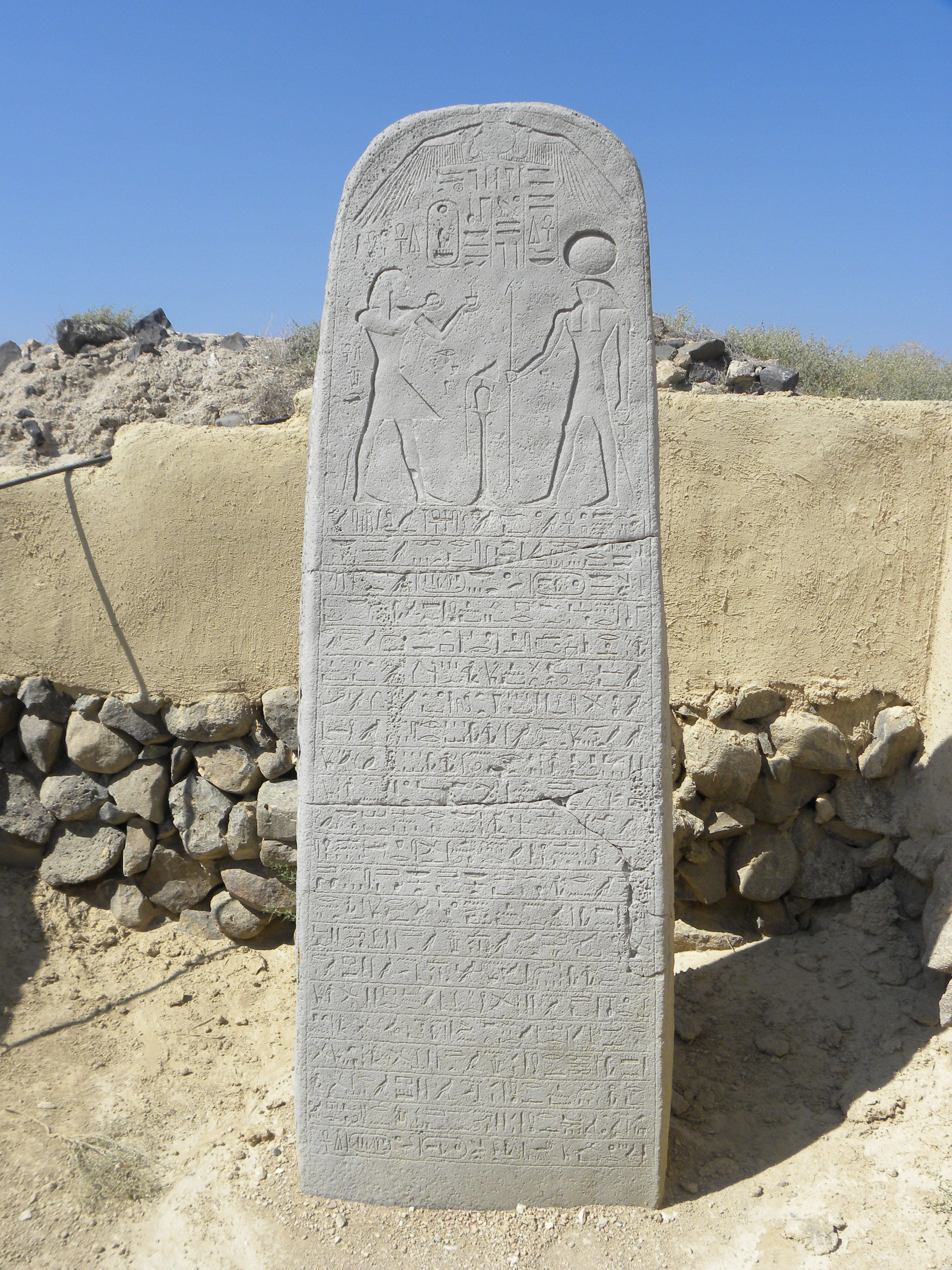 Egyptian Stele in the temple atop Tel Beth She'an Scythopolis